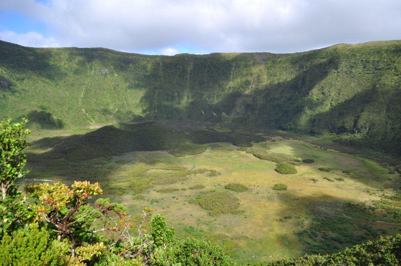 Caldeira of Faial